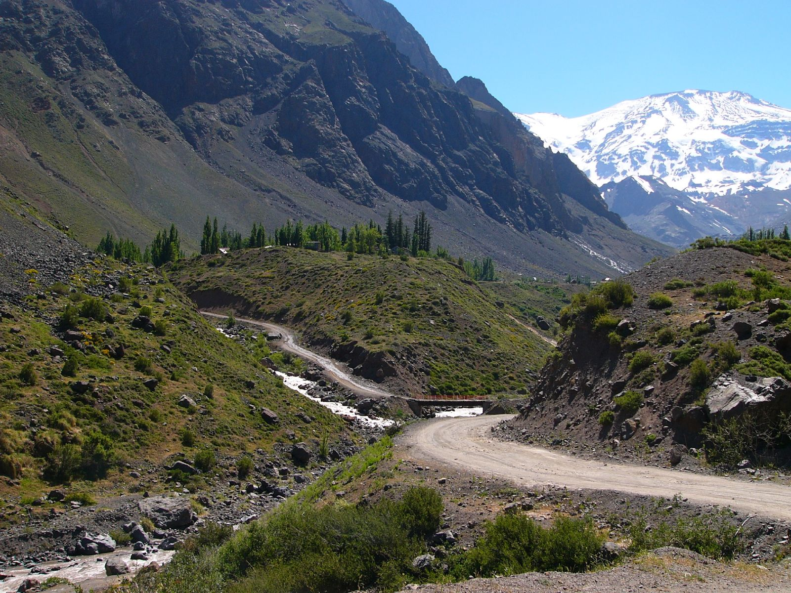 Driving to El Morado Natural Monument, Chile.